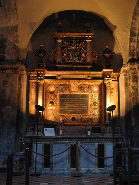 St. Bartholomew the Great - the tomb of Sir Walter Mildmay (1520-1589), founder of Emmanuel College, Cambridge and from 1566 Chancellor of the Exchequer to Queen Elizabeth I - The arms shown on the monument (see image[1]) are quarterly of four: 1: Argent, three lions rampant azure (Mildmay ancient; in 1583 Sir Walter Mildmay is recorded as having a "restitution of the ancient arms"[2]), with a martlet for difference. 2: Per fess nebulée argent and sable, three greyhound's heads couped counter-changed collared gules studded or (Mildmay modern, per 3: Azure, on a canton or a mullet sable (Le Rowse, 13th c.), tinctures incorrectly restored on monument 4: Sable, a chevron embattled or between three roses argent (Cornish of Much Waltham, Essex, 15th c.) For Mildmay quarterings (namely Le Rowse, Cornish, etc) see Mildmay in 1612 Heraldic Visitation of Essex[3]. Also as shown on monument to Sir Anthony Mildmay (d.1617), St Leonard's Church, Apethorpe, Northants.